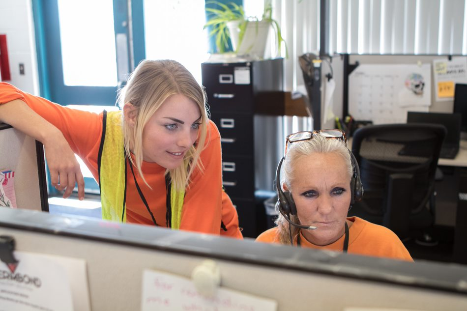 Women working for Televerde